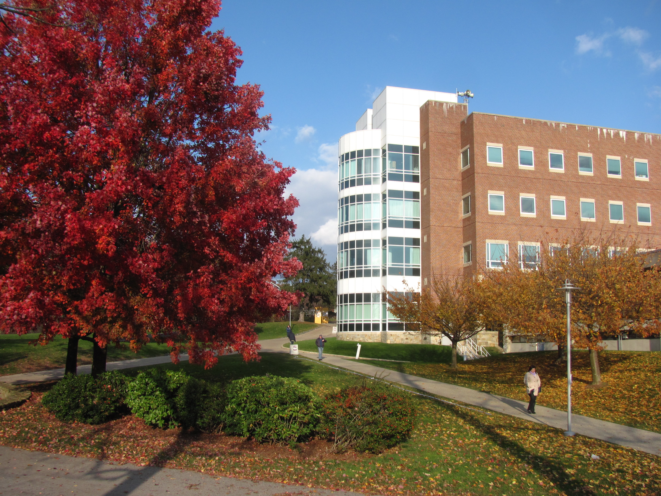 Volen Center for Complex Systems, Brandeis University, Waltham Massachusetts